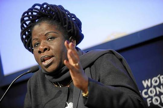 Luisa Diogo, Prime Minister of Mozambique captured during the session 'Completing the Malaria Mission' at the Annual Meeting 2009 of the World Economic Forum in Davos, Switzerland.